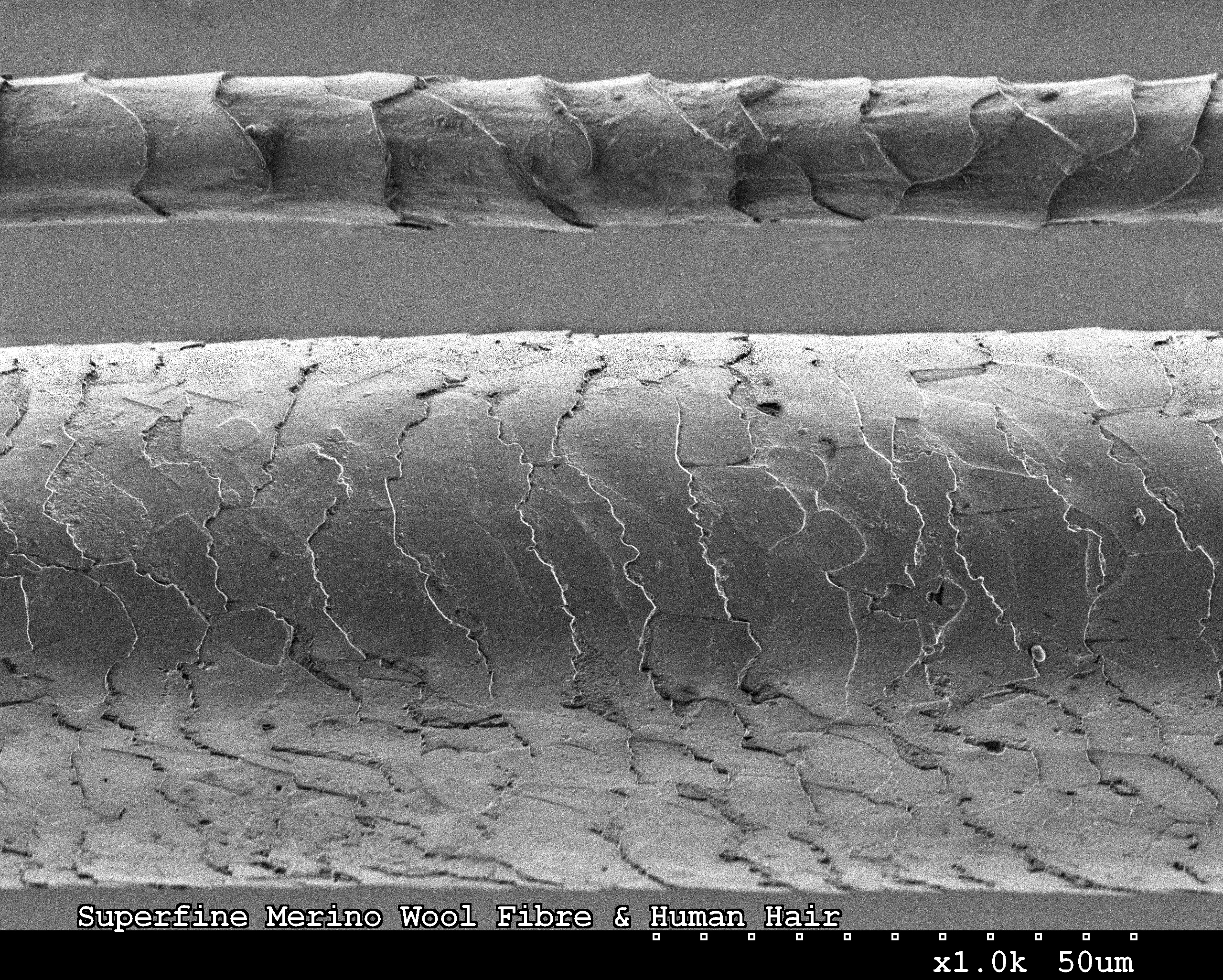 A scanning electron microscope image showing the difference in size and texture between a superfine Merino wool fibre (top) and a human hair